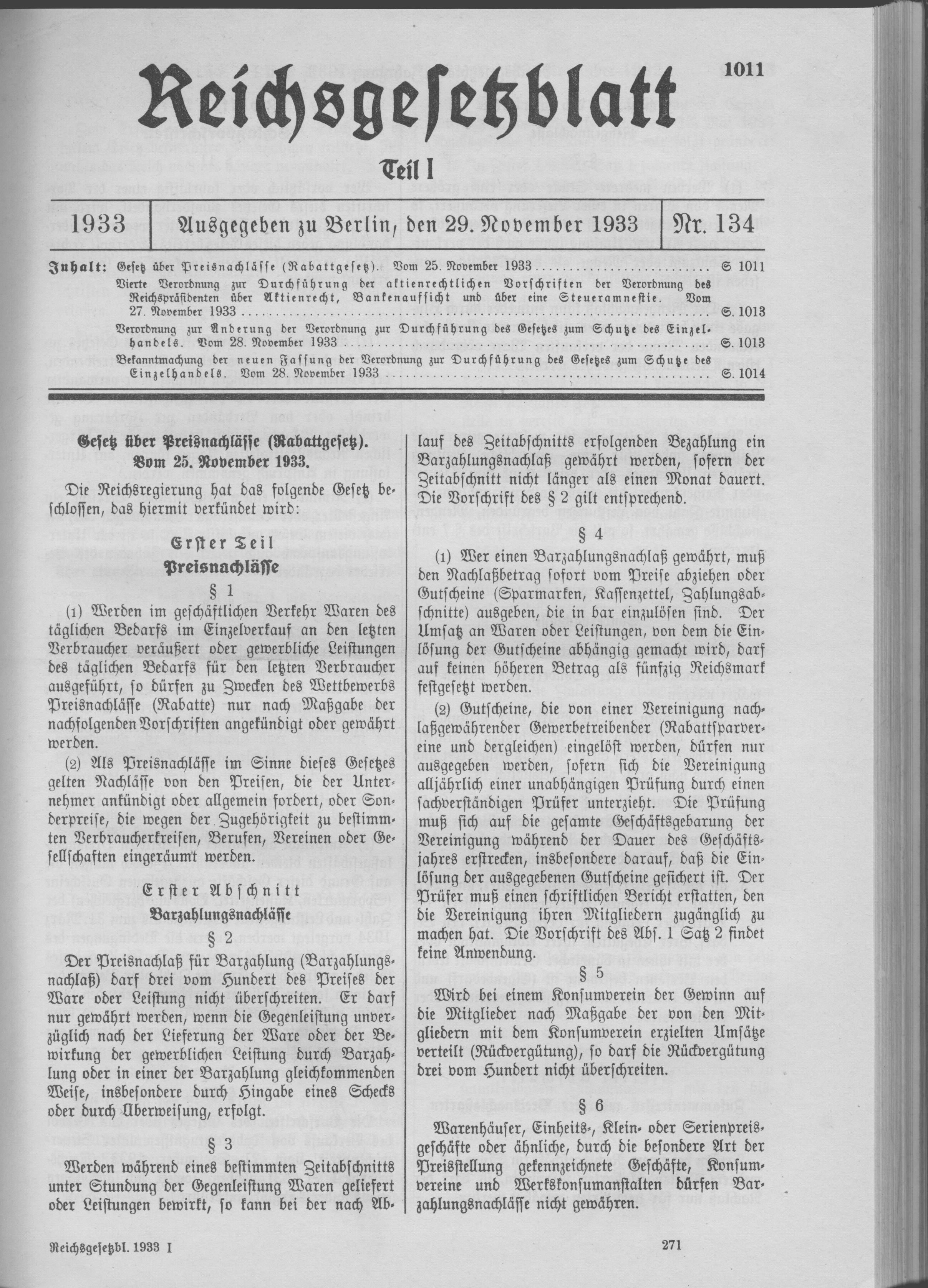 Scan from the Imperial Law Gazette of Germany, 1933, part 1